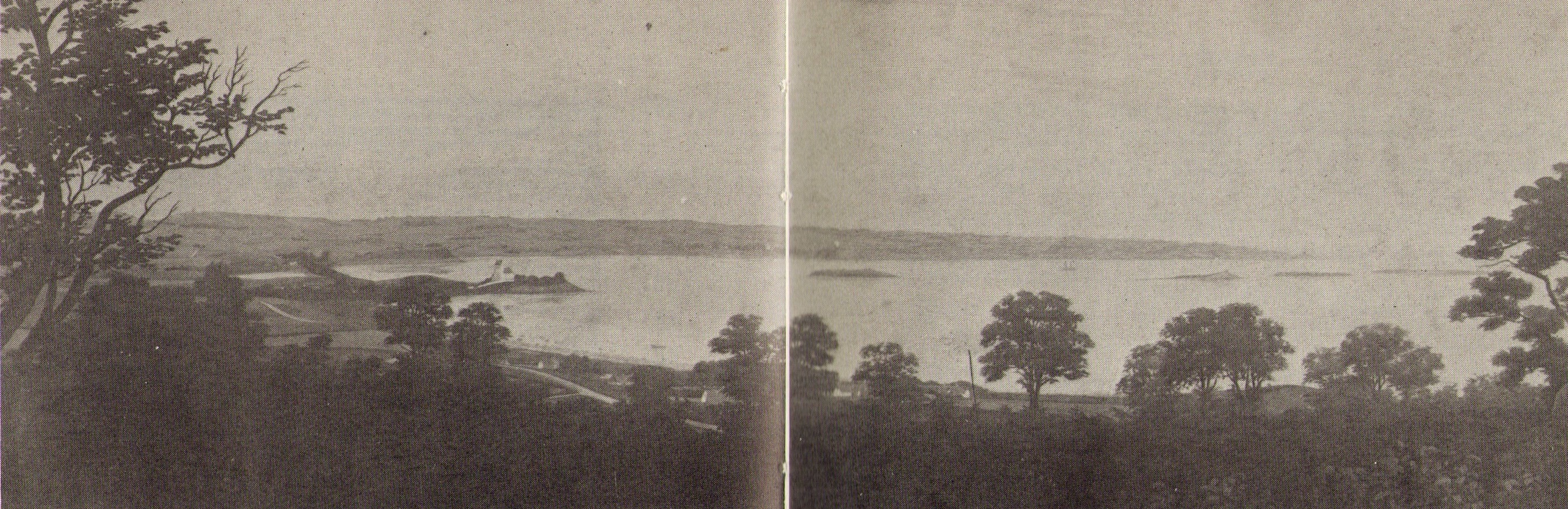 Lammefjorden in 1870, before the desiccation in 1874.